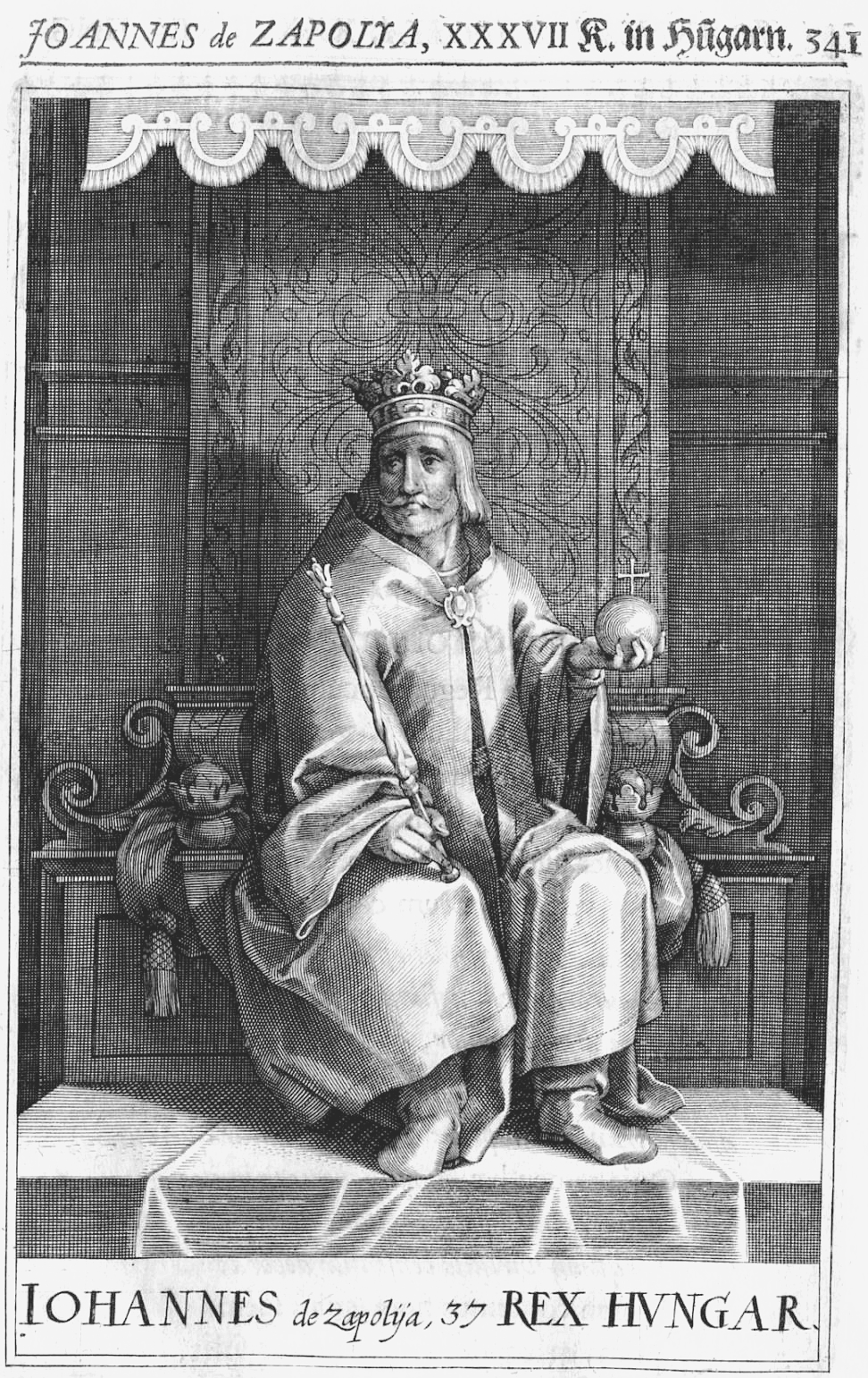 Portrait of Jan Zapolsky